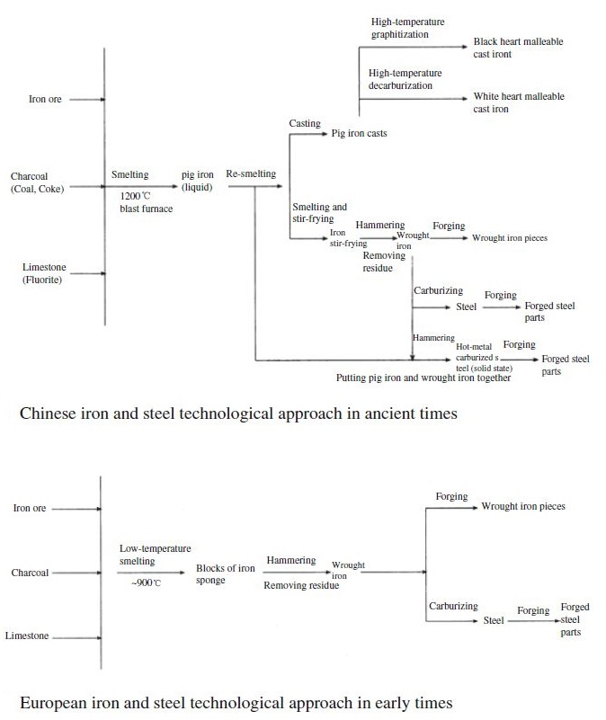 Comparison of ancient Chinese and European iron and steel making processes.